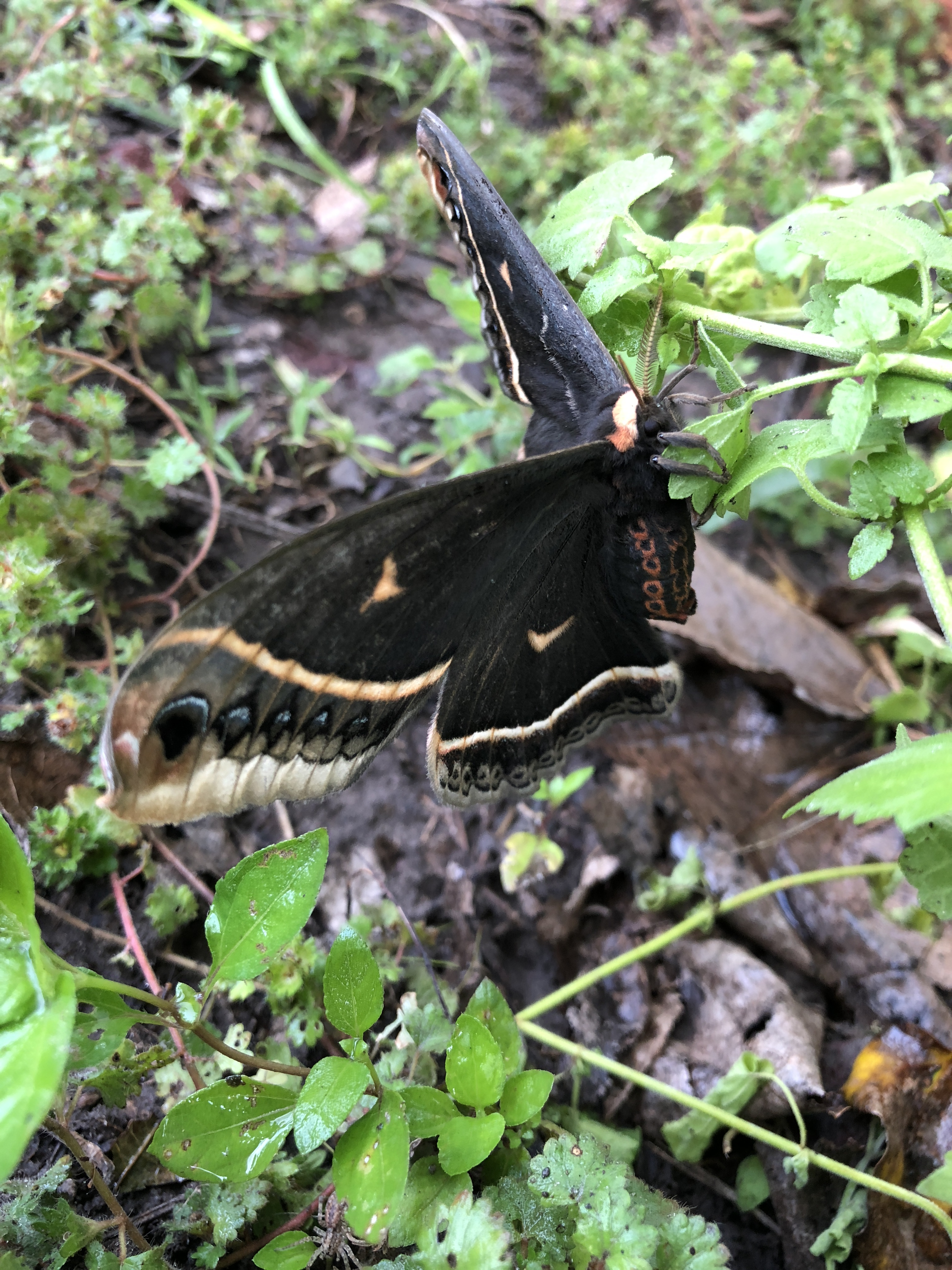 This is a photo of a female Eupackardia calleta, also known as the Calleta silkmoth. This photo was taken 12 miles west of Beeville, TX.